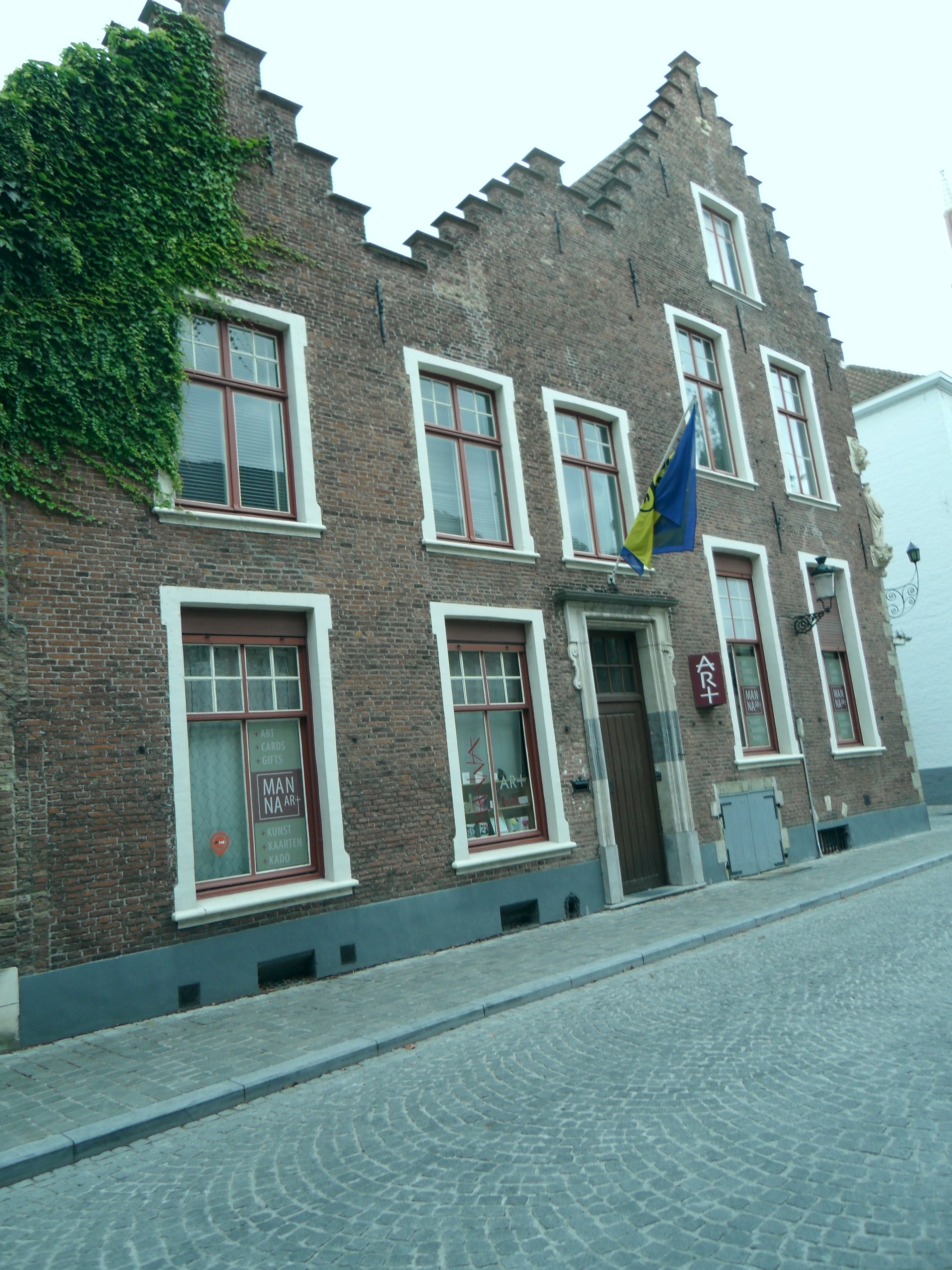 Het Mannahuis in Brugge